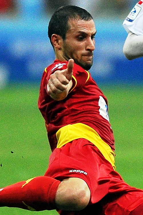 Shah Alam, 13/10/2012 Selangor's Ramez Dayoub fights for the ball during Malaysia Cup Semi-final 2012 at Stadium Shah Alam. Pix Firdaus Latif